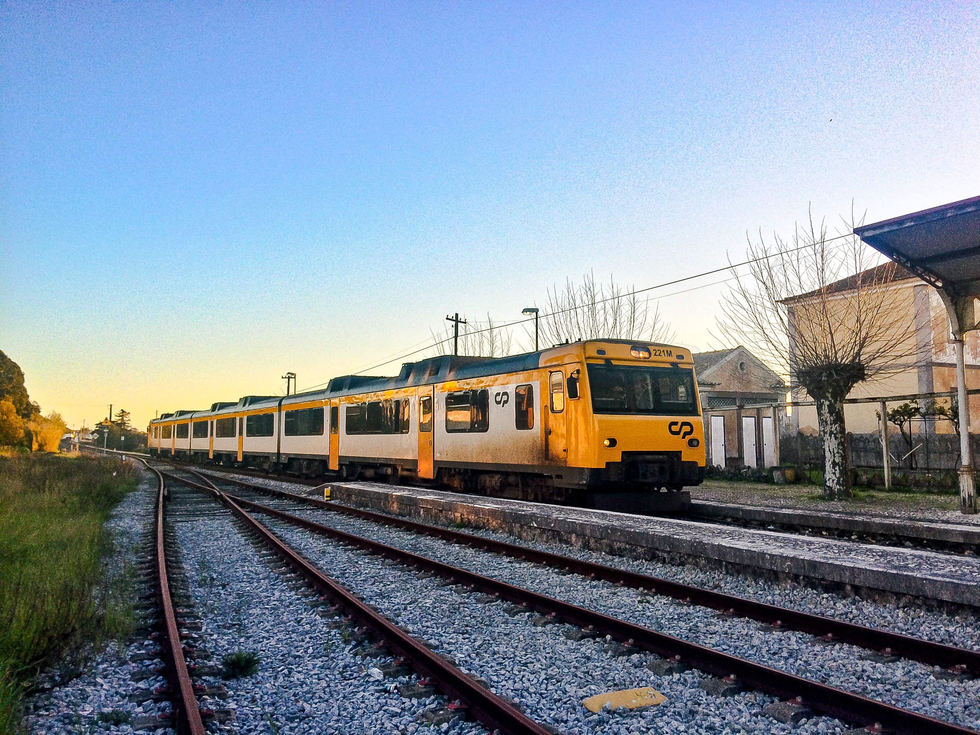 EMU 592.2 as regional train no 6417 in direction Torres Vedras at Sabugo train station